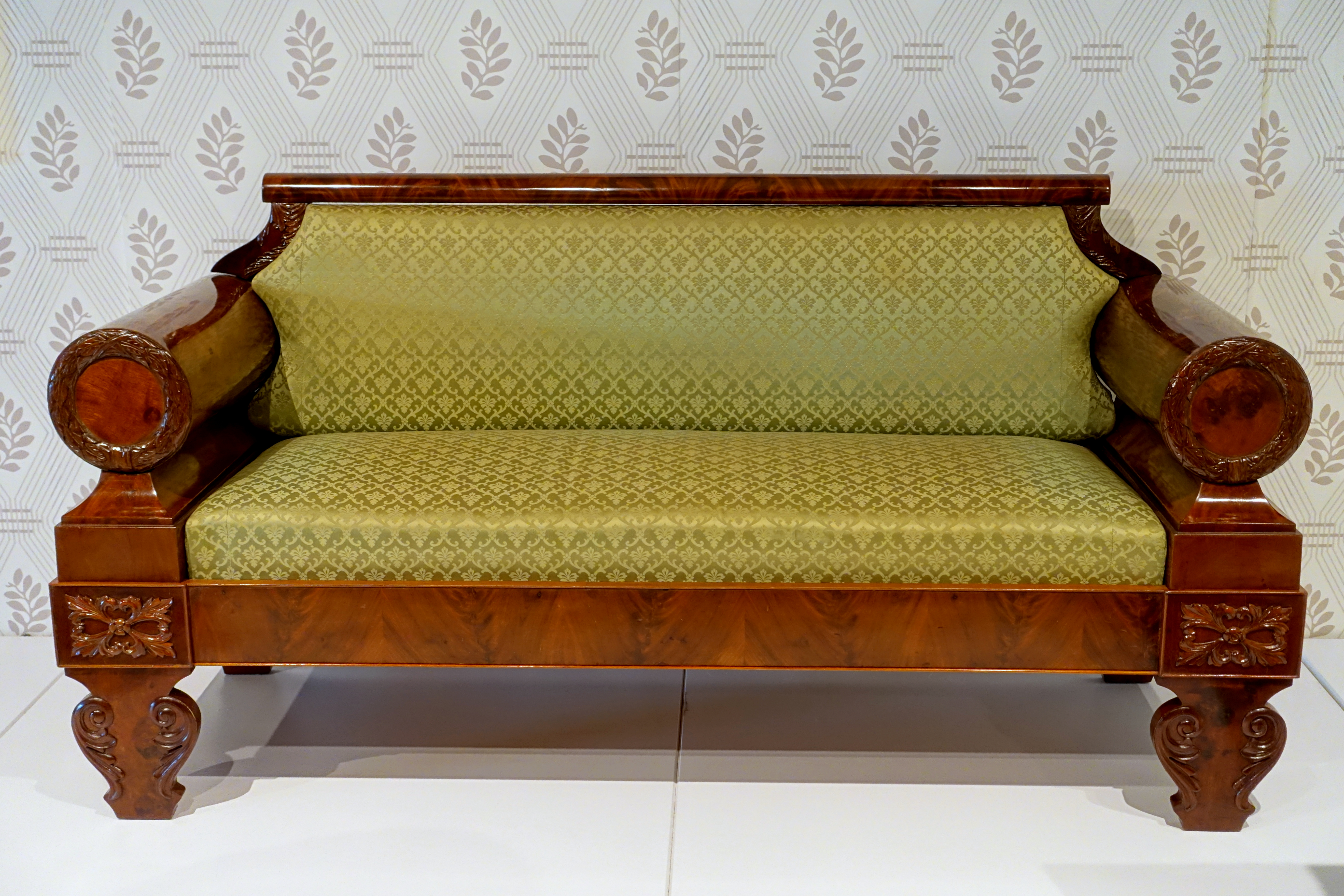 Exhibit in the Montreal Museum of Fine Arts - Montreal, Quebec, Canada.